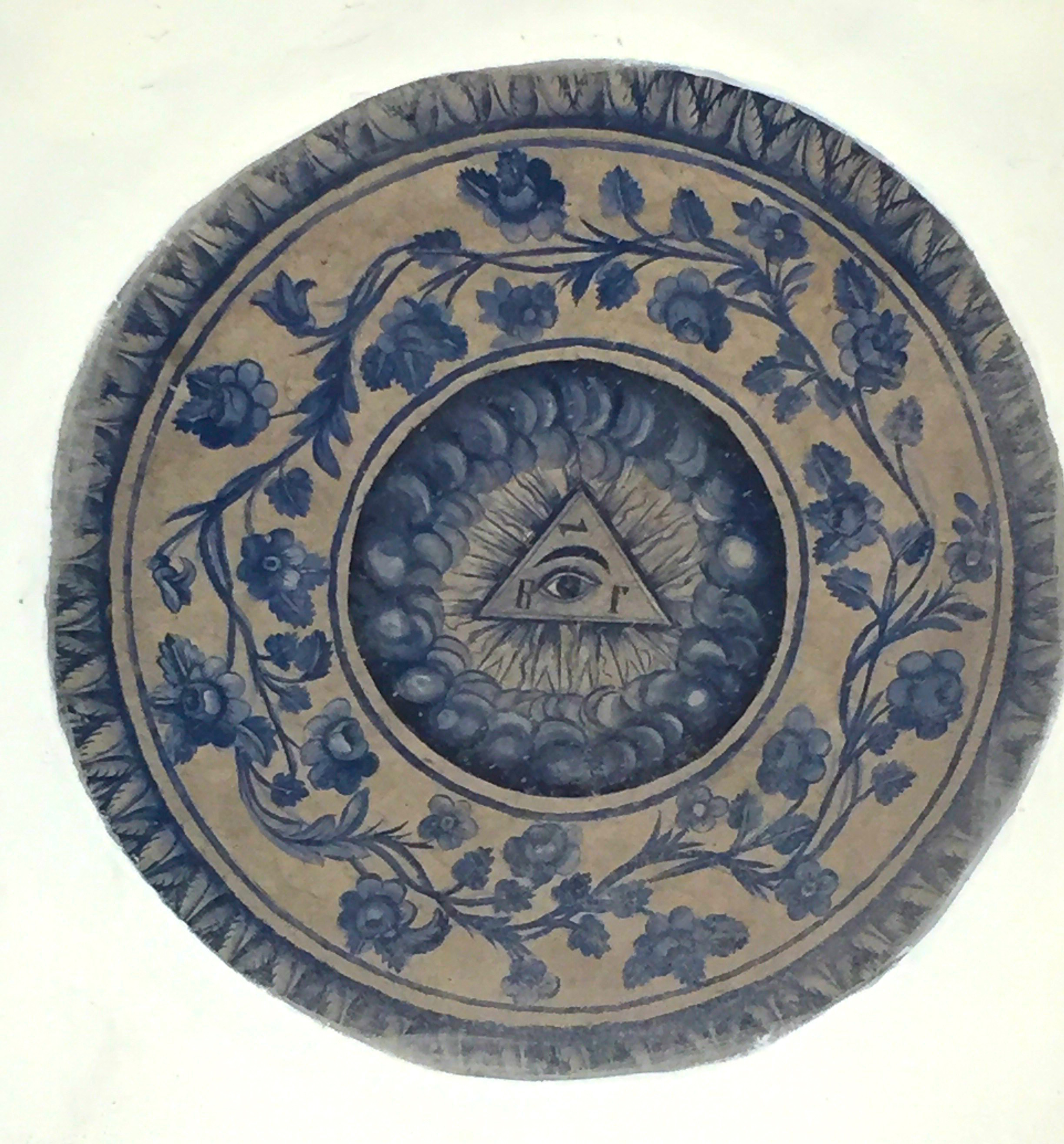 The Seeing Eye of Providence, as seen on a ceiling wall painting inside antechamber of the St. Nikolas church (Црква Свети Никола) in Kumanovo, Republic of Macedonia.